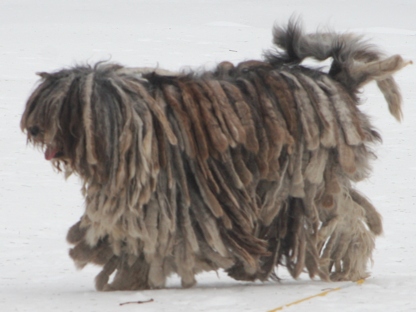 Bergamasco shepherd dog - merle female